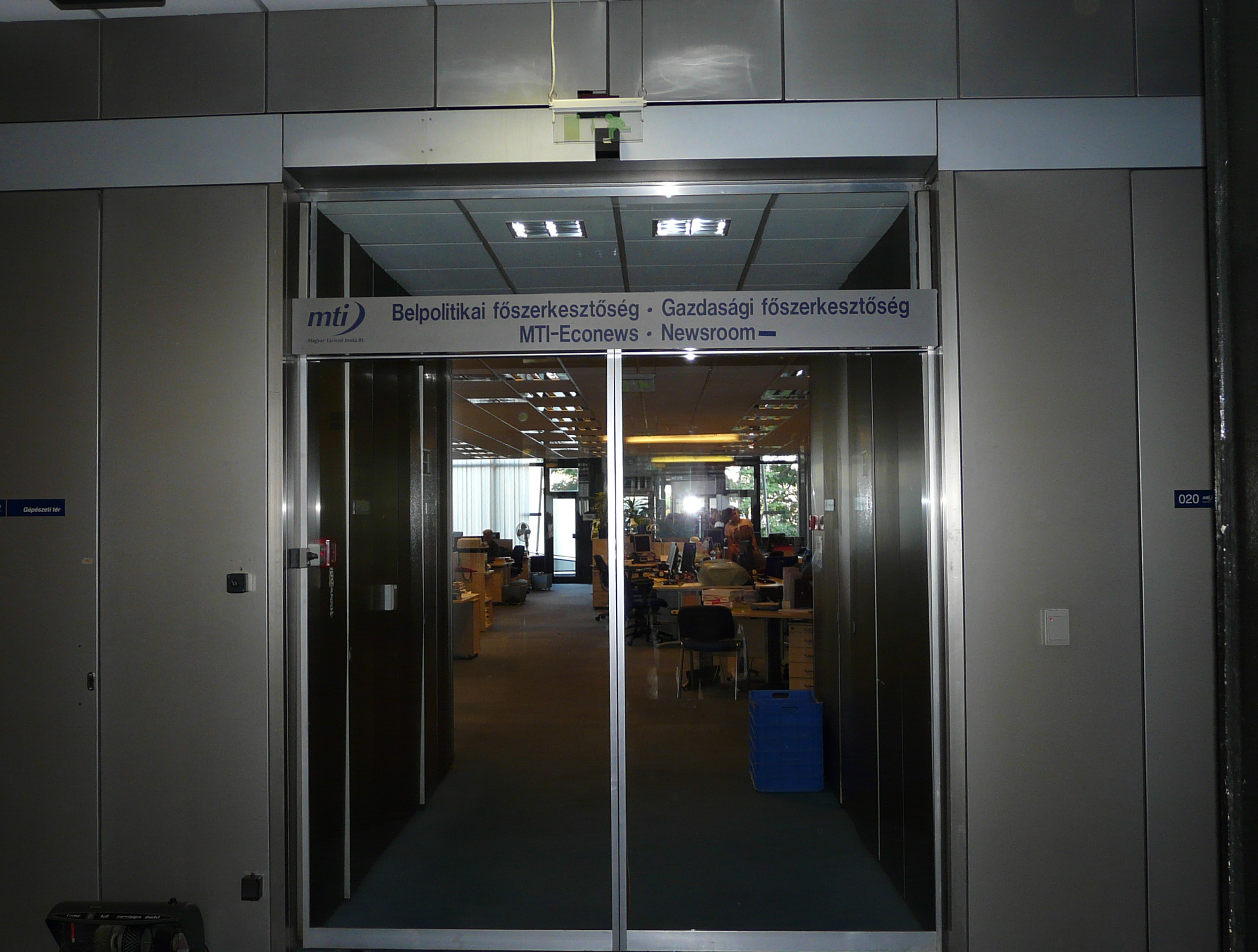 MTI (Hungarian News Agency) newsroom entry